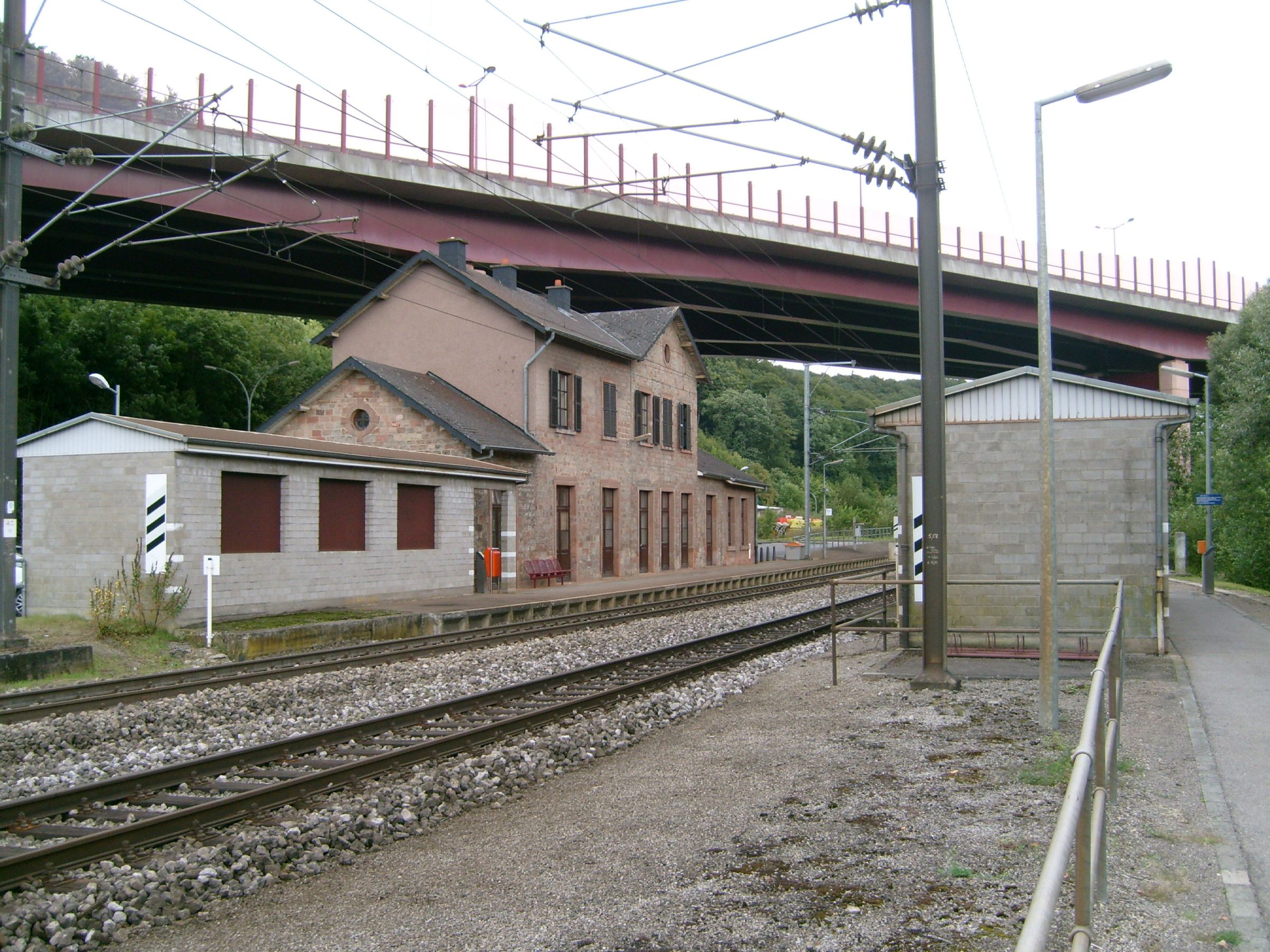 The railway station of the village of Colmar-Berg, Luxembourg